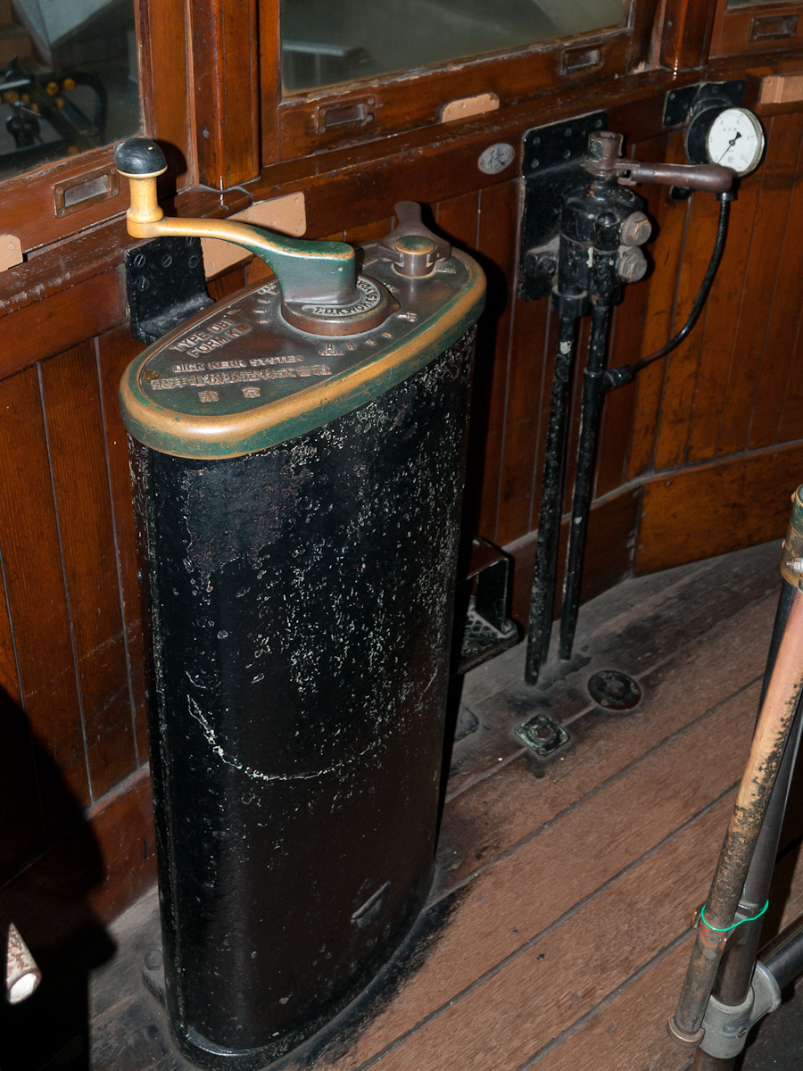 Dick Kerr type direct controller by Toyo Denki Seizo.